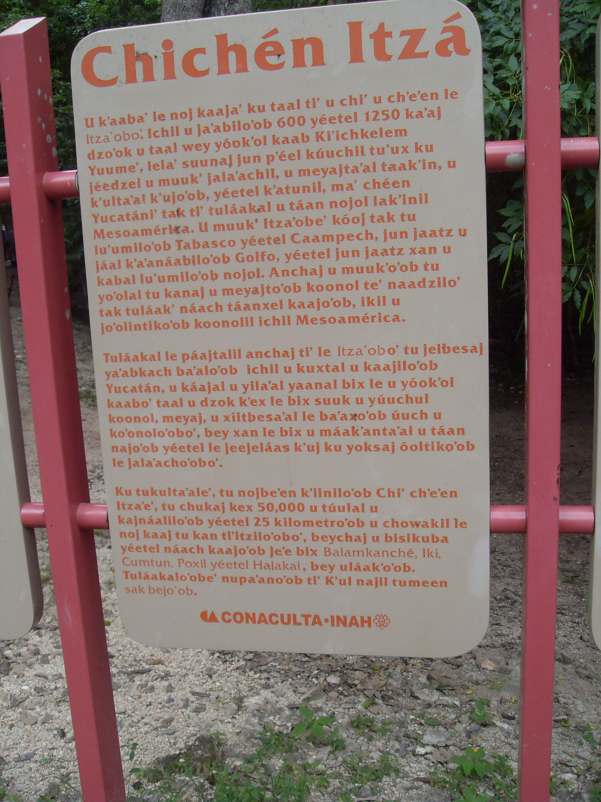 Information in maya, Chichen Itzá, Mexico